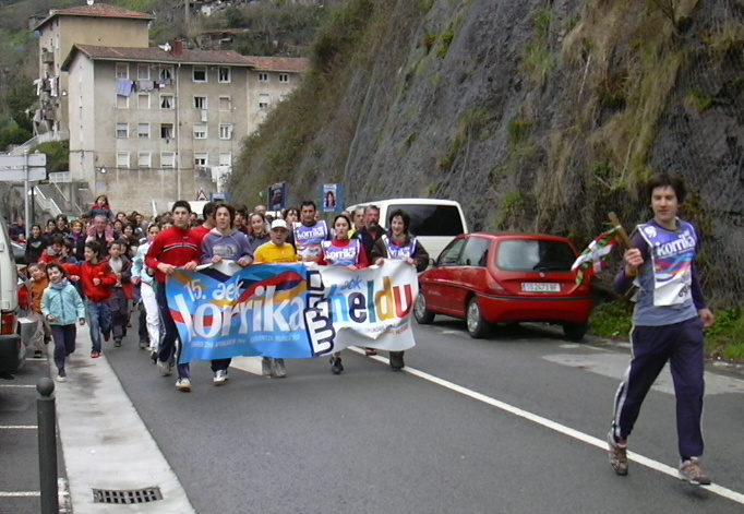 Head of the 15th Korrika 2007 in Soraluze.